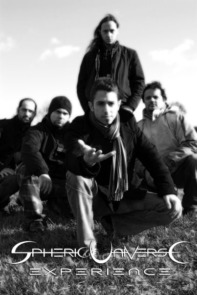 Picture of Spheric Universe Experience, french prog metal band, during the essence of progression tour in 2009 Piemontèis: Photo de Spheric Universe Experience, groupe français de metal prog, lors de la tournée Essence of Progression en 2009